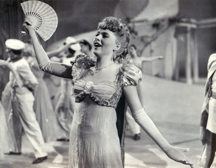 Susanna Foster in The Climax - publicity still (cropped)